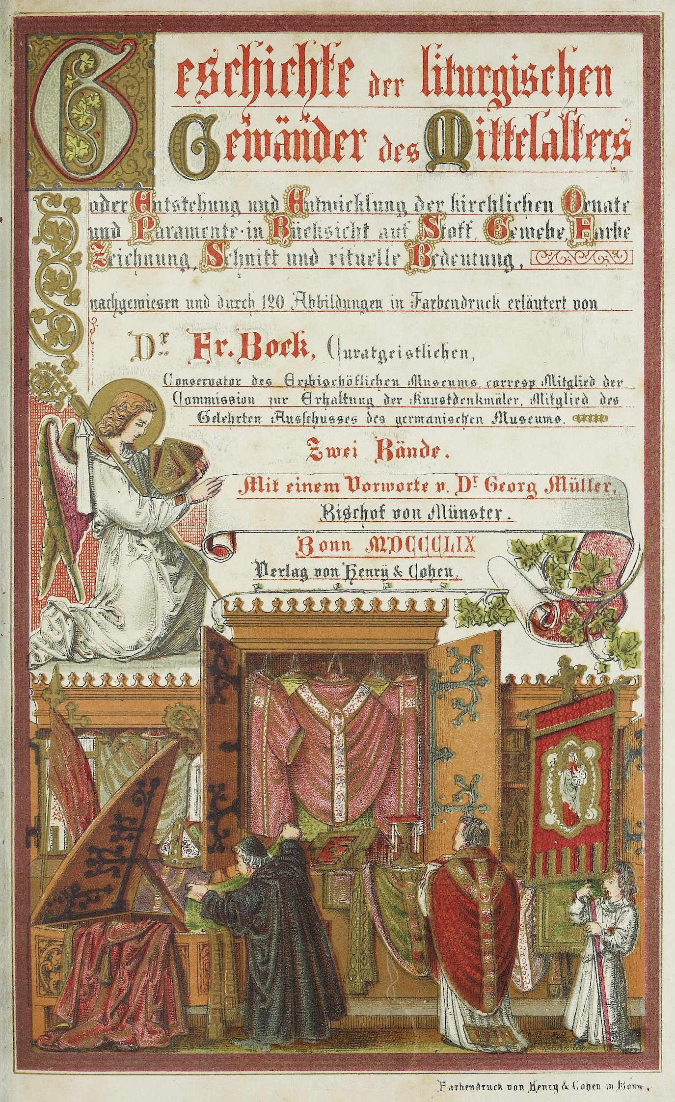 Title page of Franz Bock's 1859 Geschichte der liturgischen Gewänder des Mittelalters: oder Entstehung und Entwicklung der kirchlichen Ornate und Paramente in Rücksicht auf Stoff, Gewebe, Farbe, Zeichnung, Schnitt und rituelle Bedeutung (Band 1).